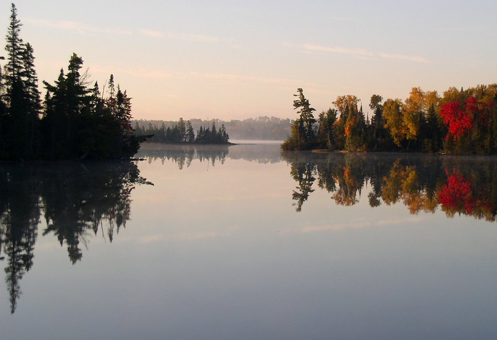 Autumn dawn on Bear Head Lake, Bear Head Lake State Park, Minnesota, USA